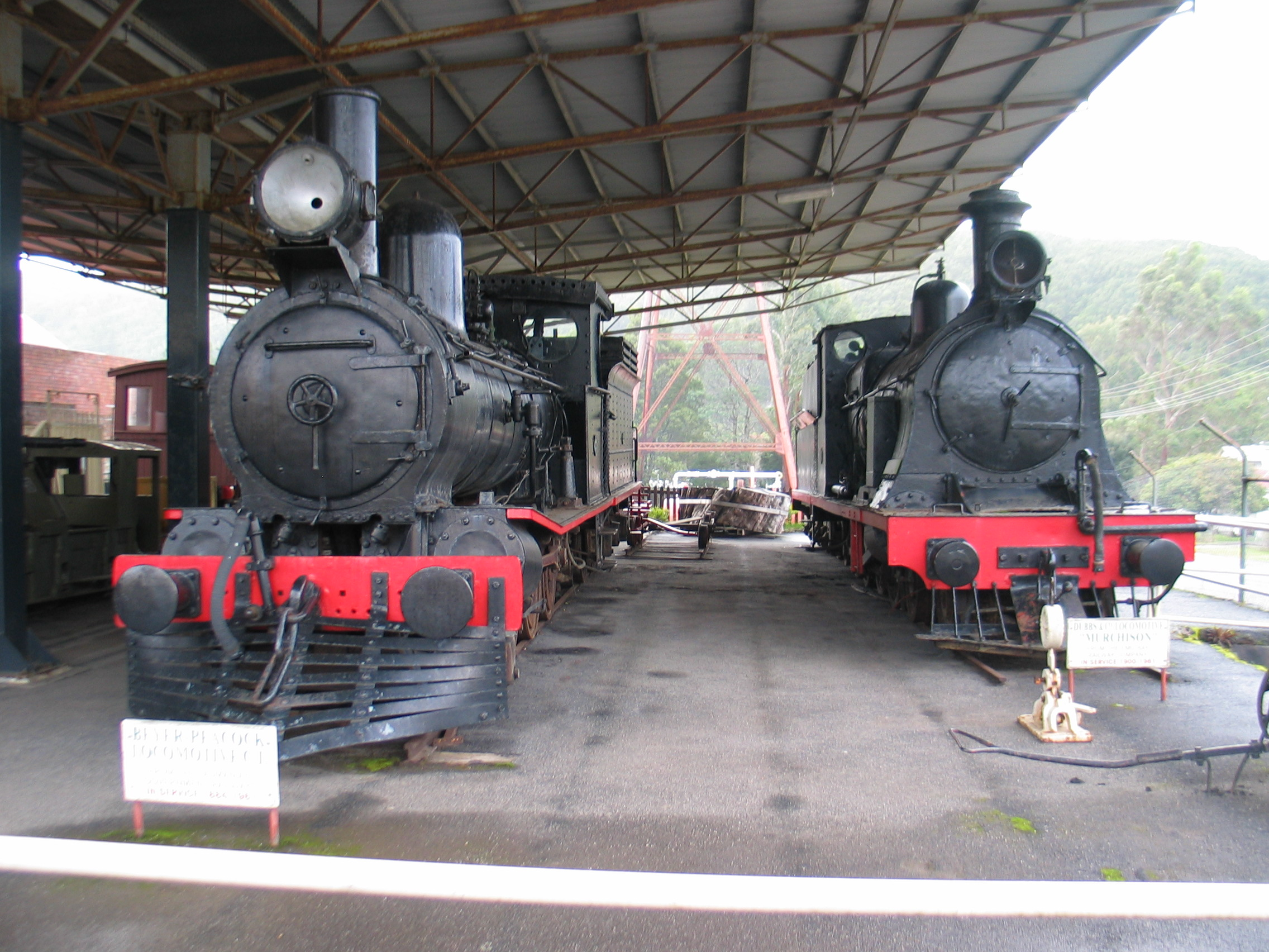 Two disused locomotives, West Coast Pioneers Museum, Zeehan, Tasmania.